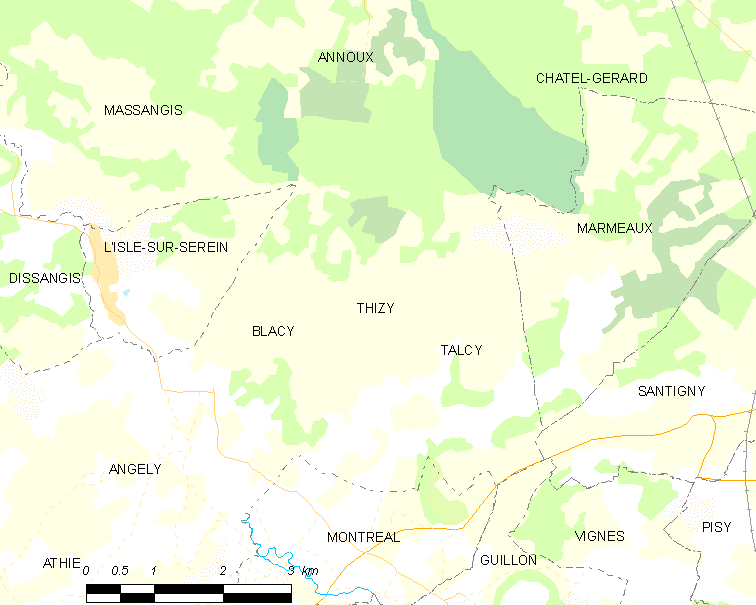 Map of French municipality Thizy